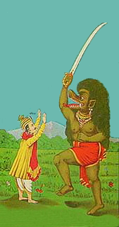 A demon of Kali yuga with sword in a painting by Raja Ravi Varma A lithograph press founded by Indian artist Ravi Varma in 1894. [1] Pinney, Christopher. Photos of the Gods: The Printed Image and Political Struggle in India. Reaktion Books, 2004 (ISBN 1861891849)